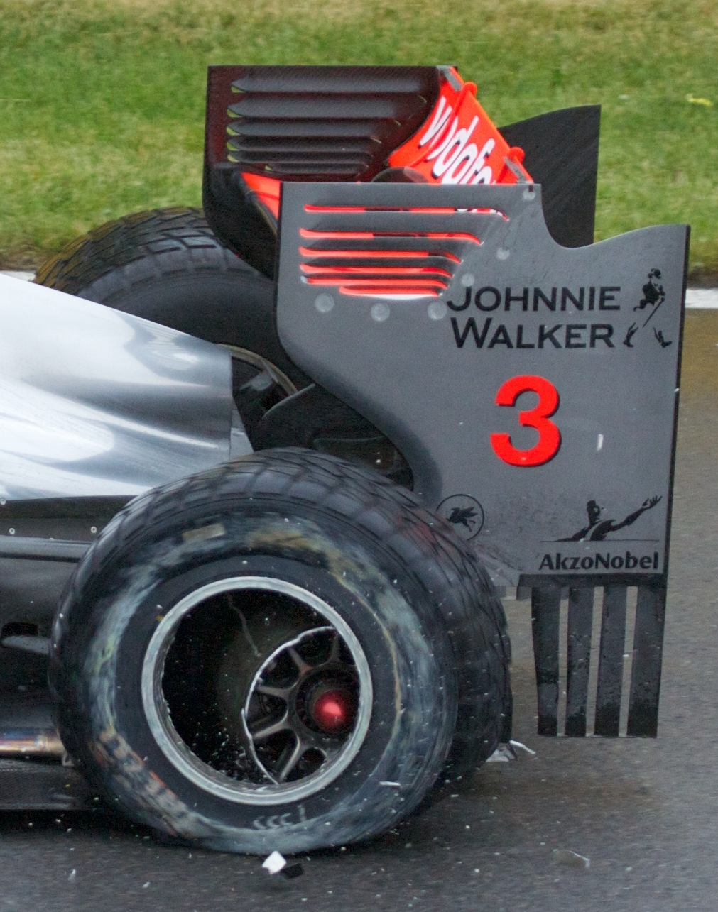 Rear wheel and aileron